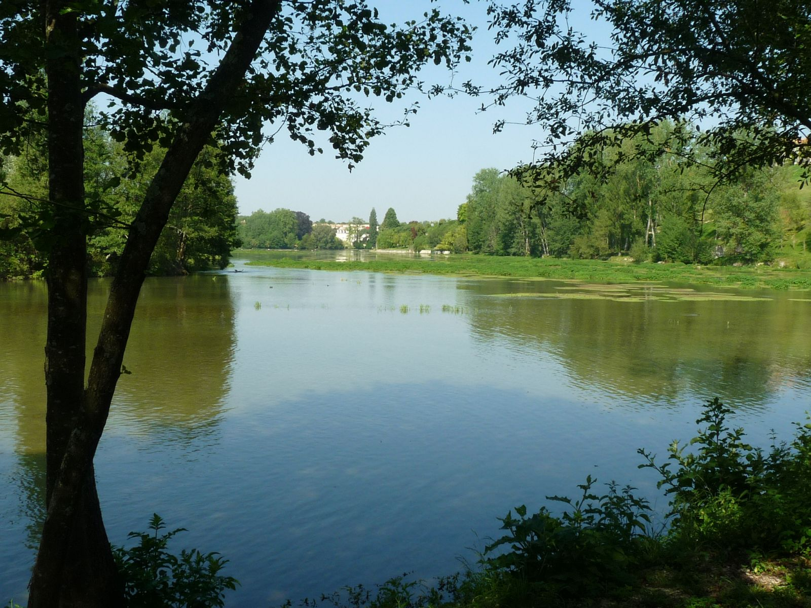 springs of Touvre River, Charente, SW France